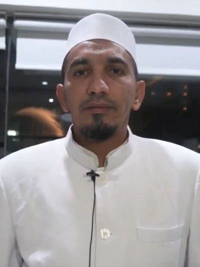 Ustadz Ahmad Shobri Lubis as General Chairman of the Islamic Defenders Front when inviting the public to take part in the Action for Defending Justice 0607